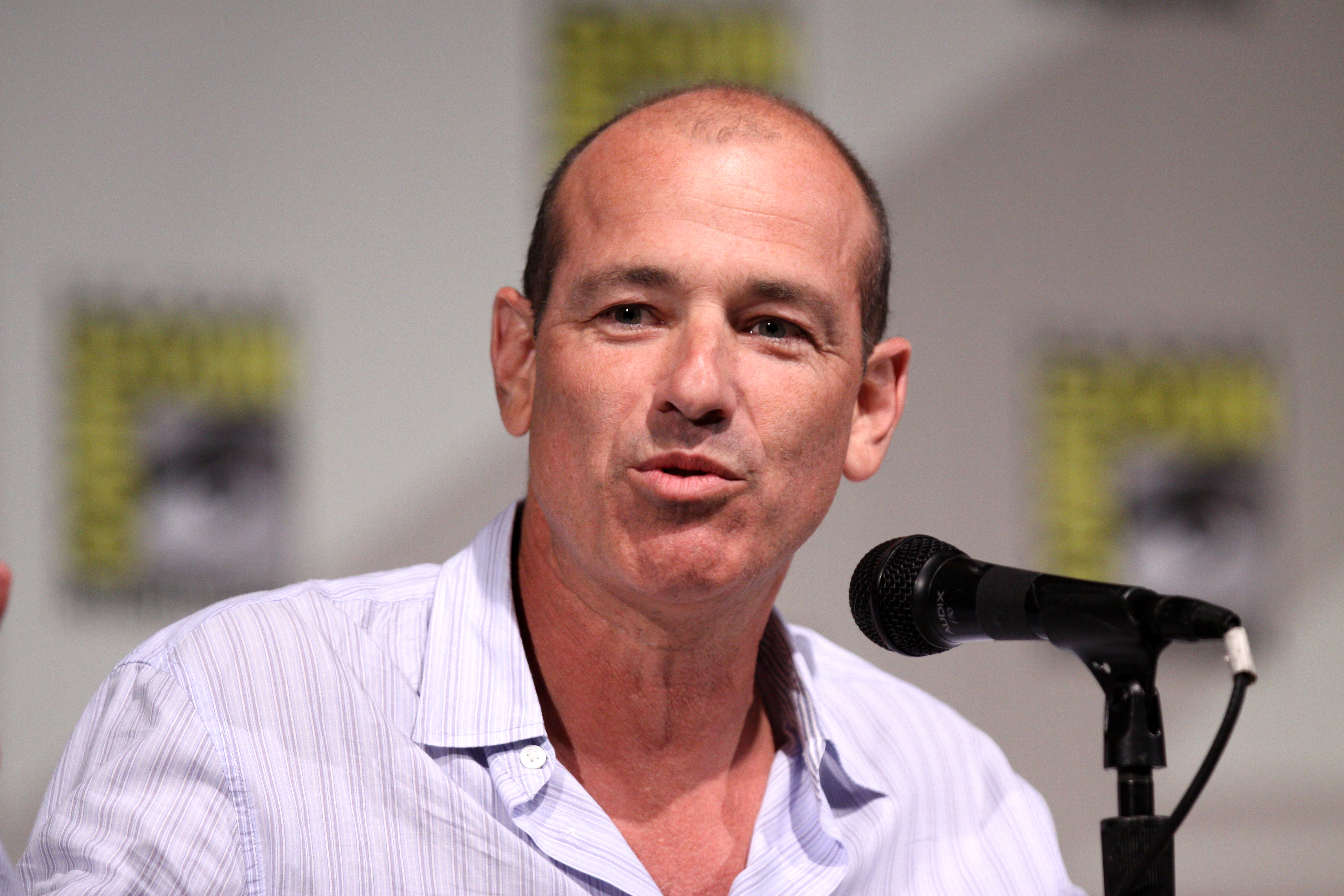 Howard Gordon at the 2011 San Diego Comic-Con International in San Diego, California.